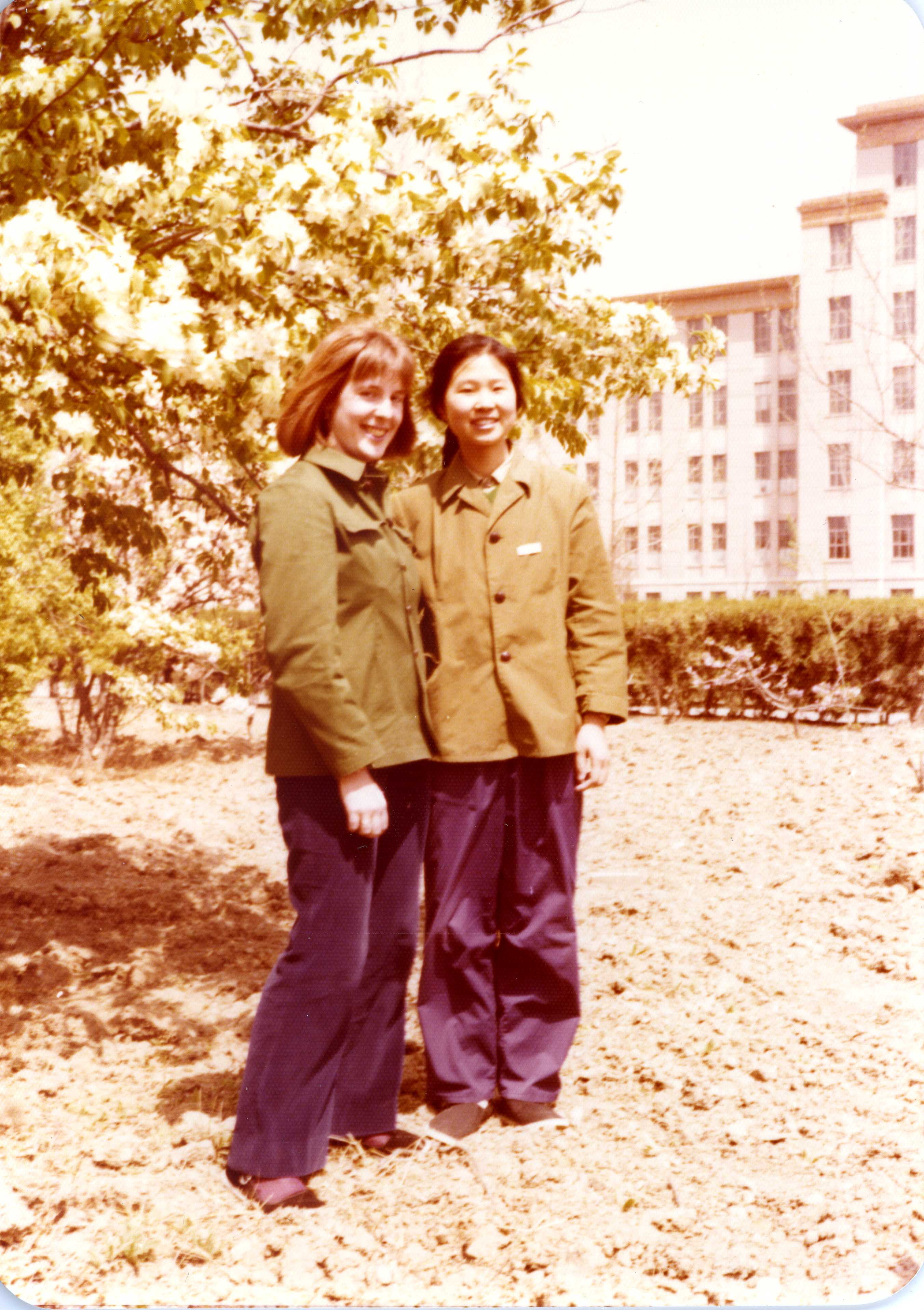 Rose Kerr as a student in China during the Cultural Revolution c 1975